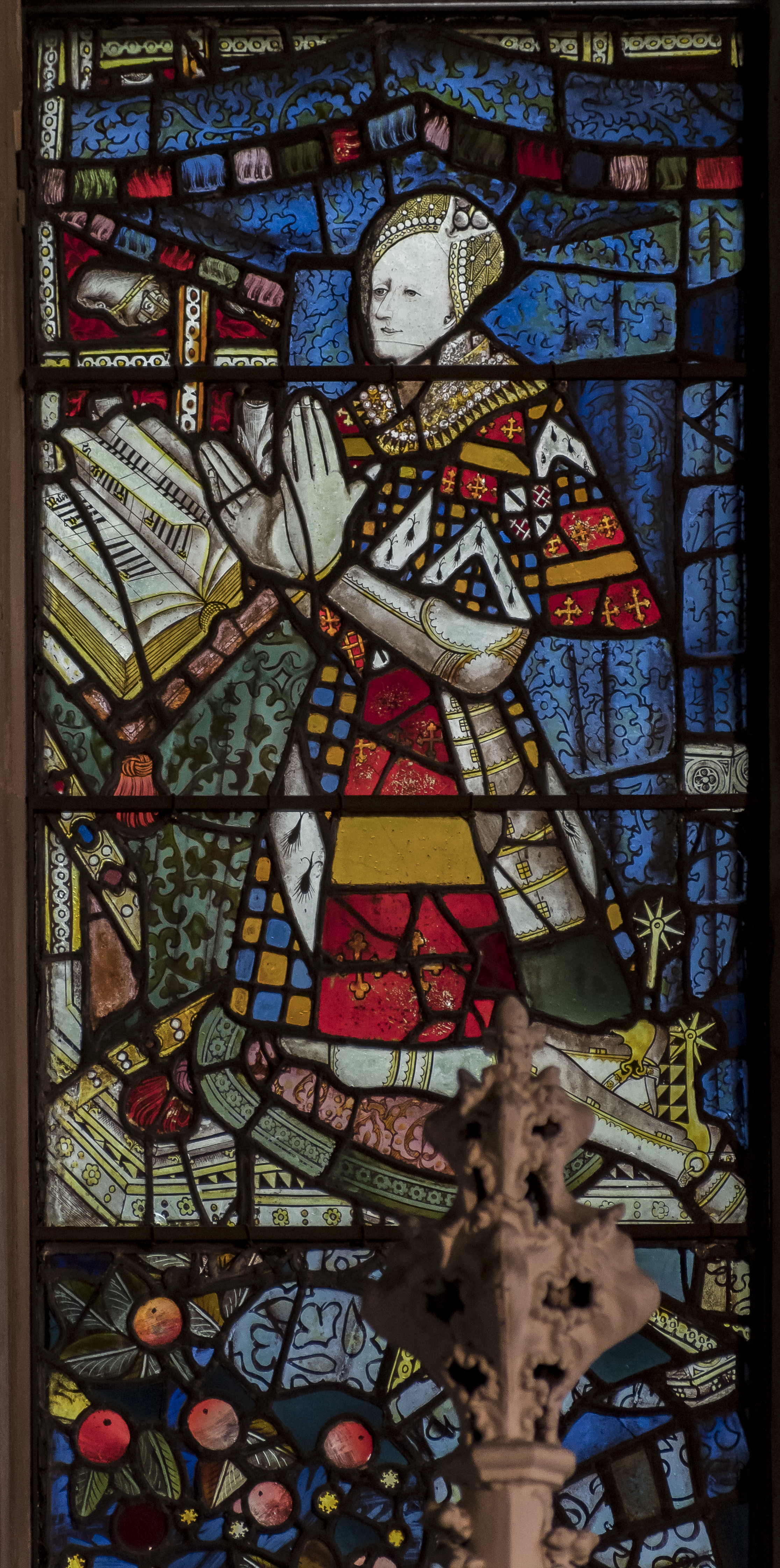 A composite figure of Richard Beauchamp. The face has been replaced with a woman's. The hands are not original either. Arms on his tabard: Beauchamp quartering Newburgh wit inescutcheon of pretence of Despencer. Fragments of a bear from the Bear and Ragged Staff badge of the Earls of Warwick is visible. He would have been shown with his two wives and children.